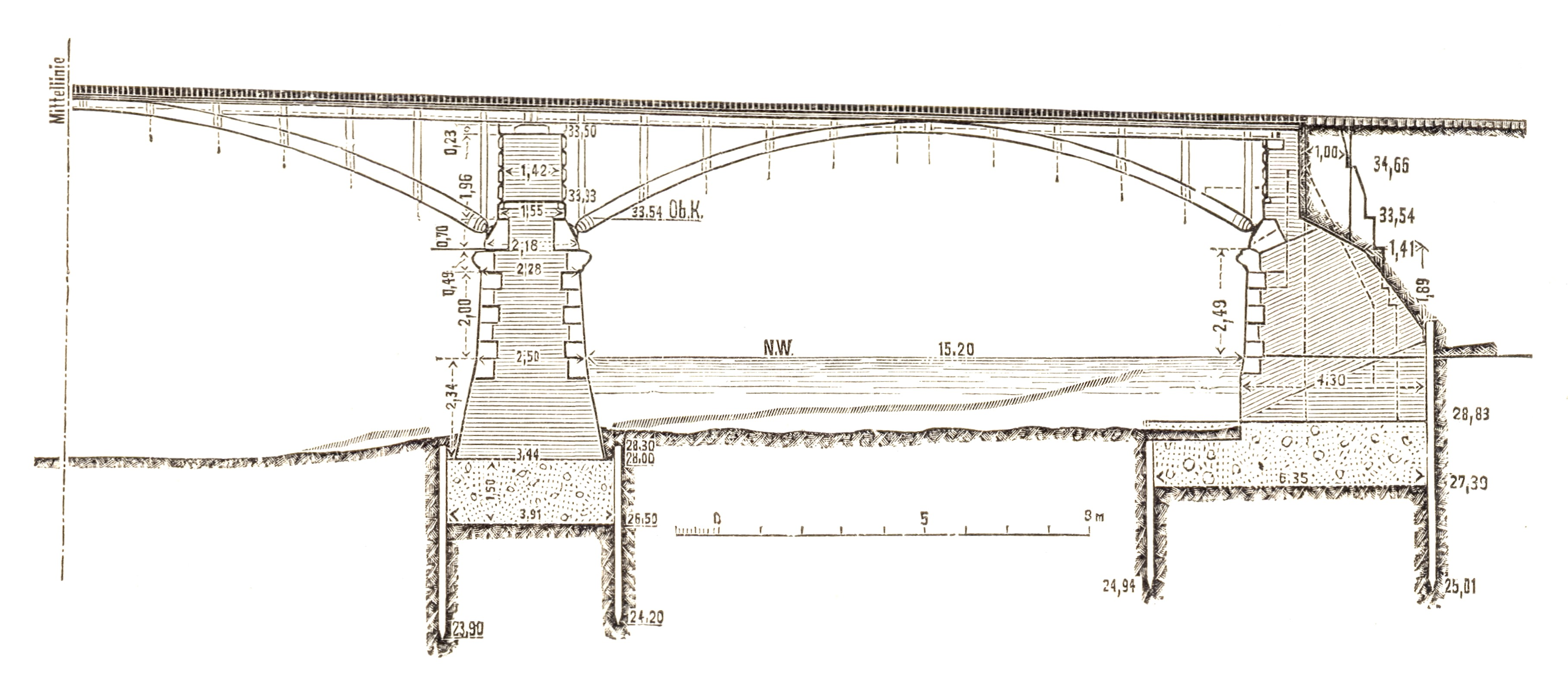 Berlin - Marschallbrücke, longitudinal section